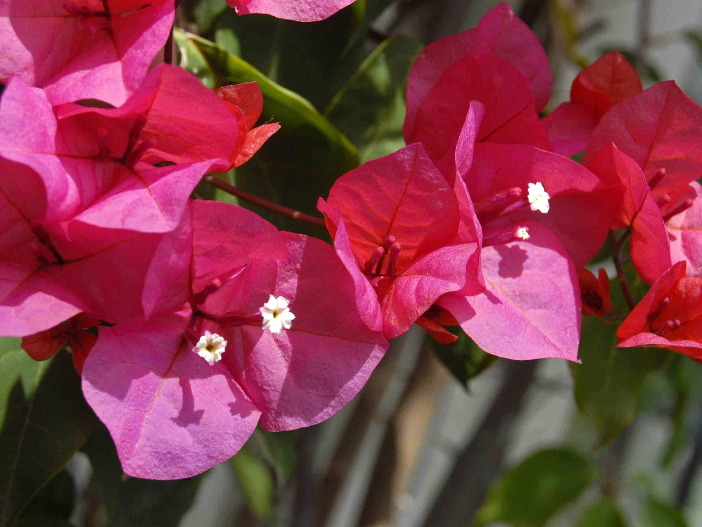 Flower surrended by bracts of Bougainvillea × buttiana